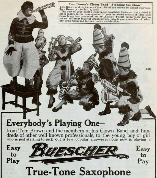 Top portion of an ad for Buescher Band Instrument Company saxophones, featuring Tom Brown (in blackface) and members of his clown band, also known as the Six Brown Brothers, for the 1920 Broadway musical production Tip Top. On page 93 of the February 1922 Photoplay.